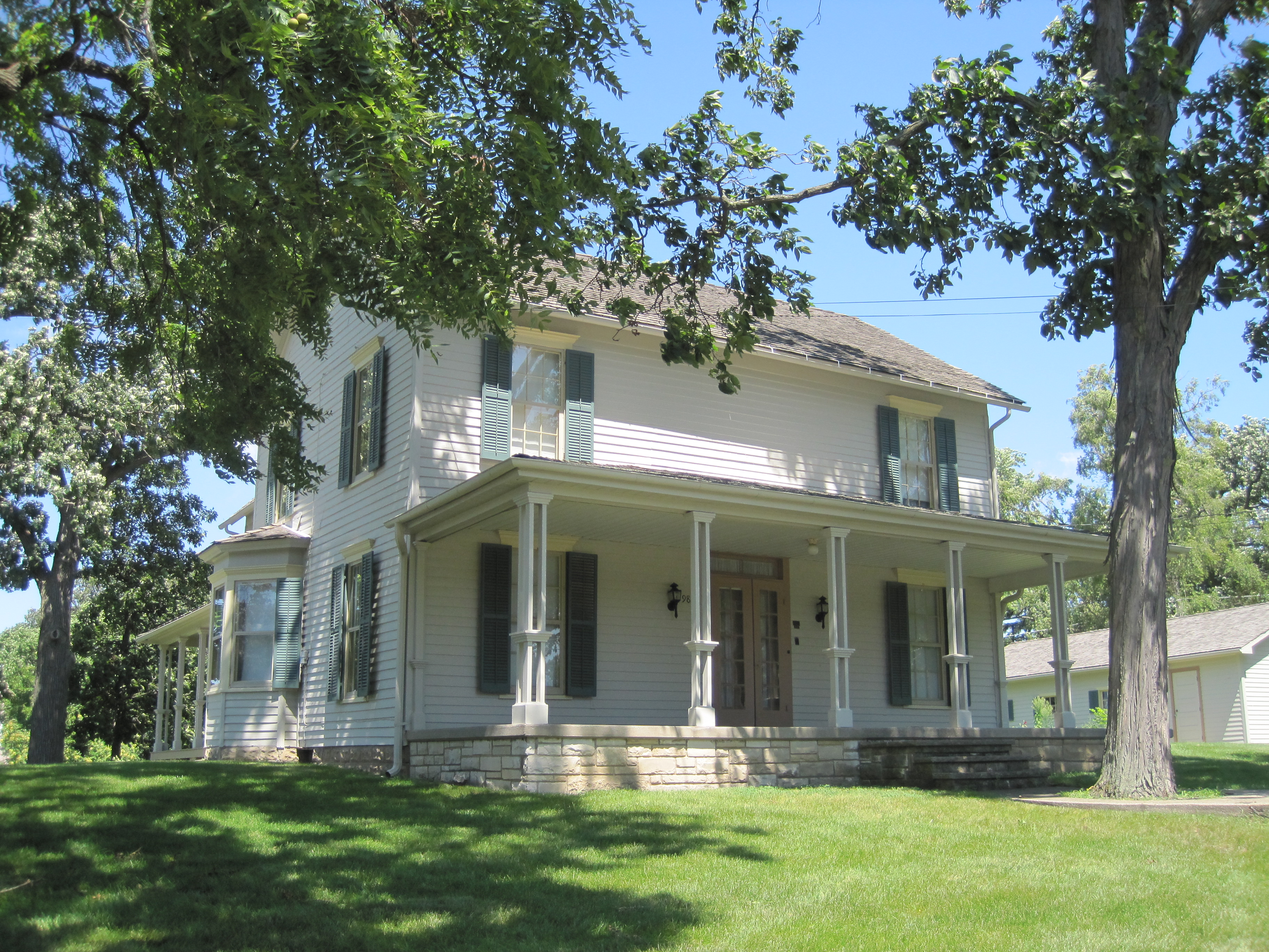 I (Teemu08 (talk)) took this image on August 9, 2011